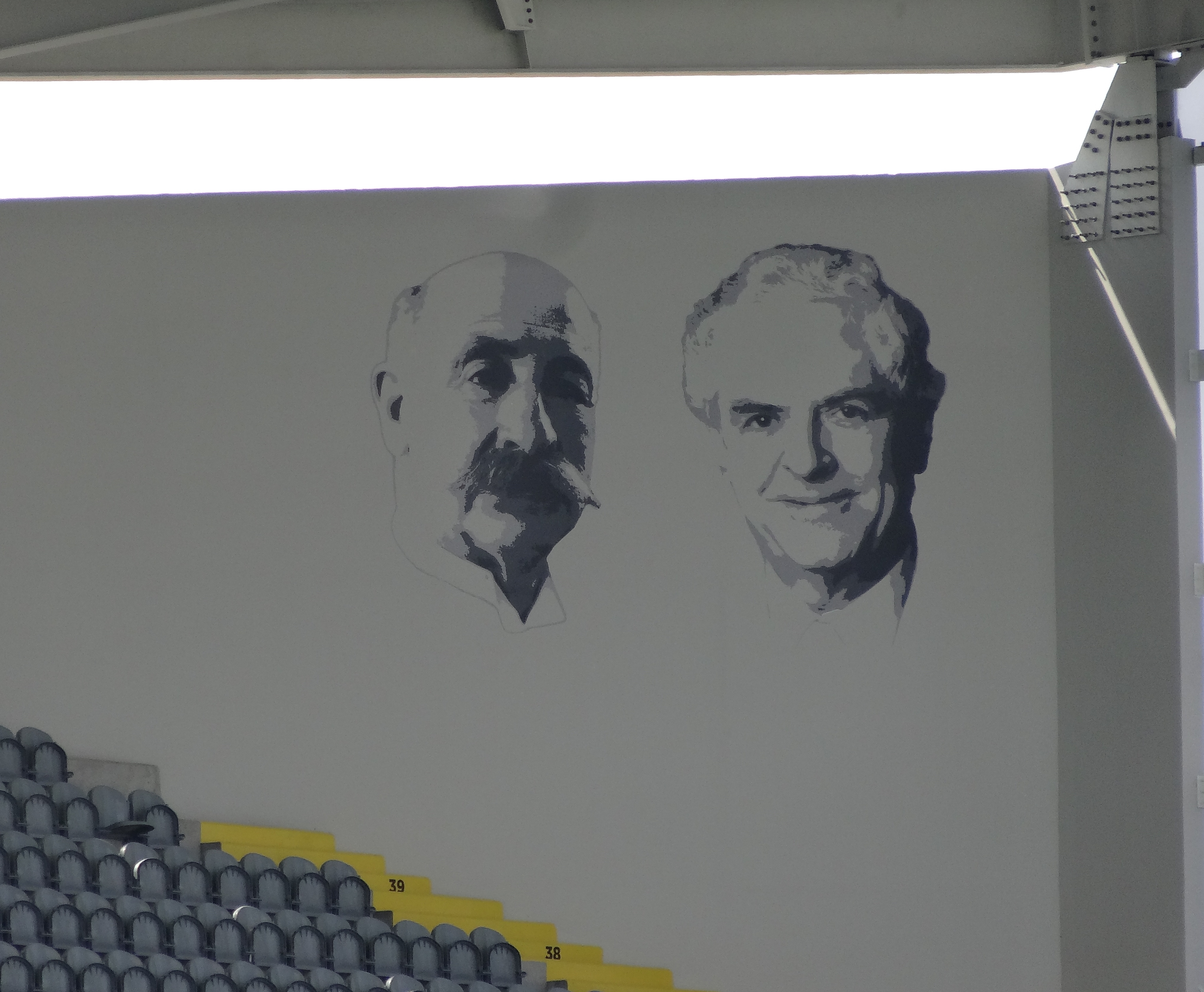 Félix Bollaert & André Delelis (Lens)